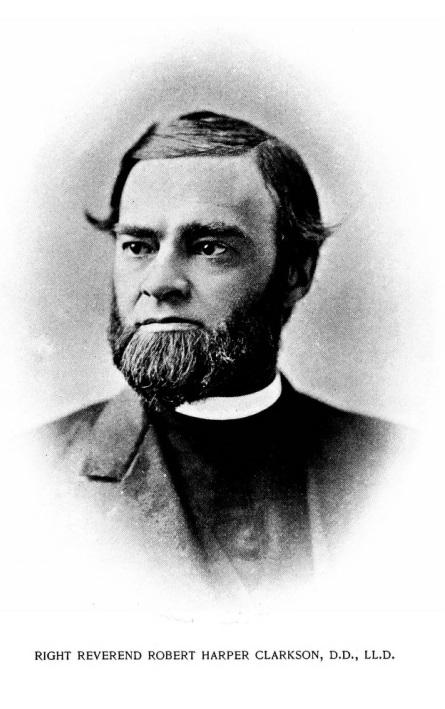 The Rt. Rev. Robert Harper Clarkson, Episcopal missionary bishop of Nebraska and Dakota